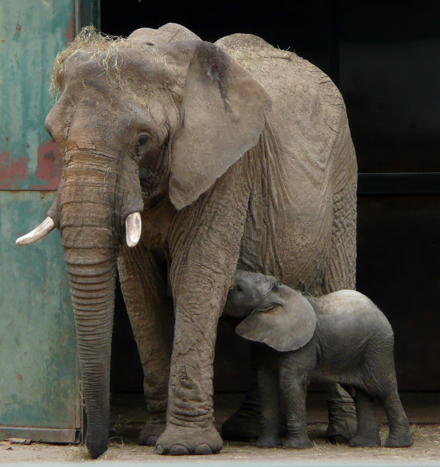 Loxodonta africana (African Bush Elephant) pair in Howletts Wild Animal Park, Kent, England.